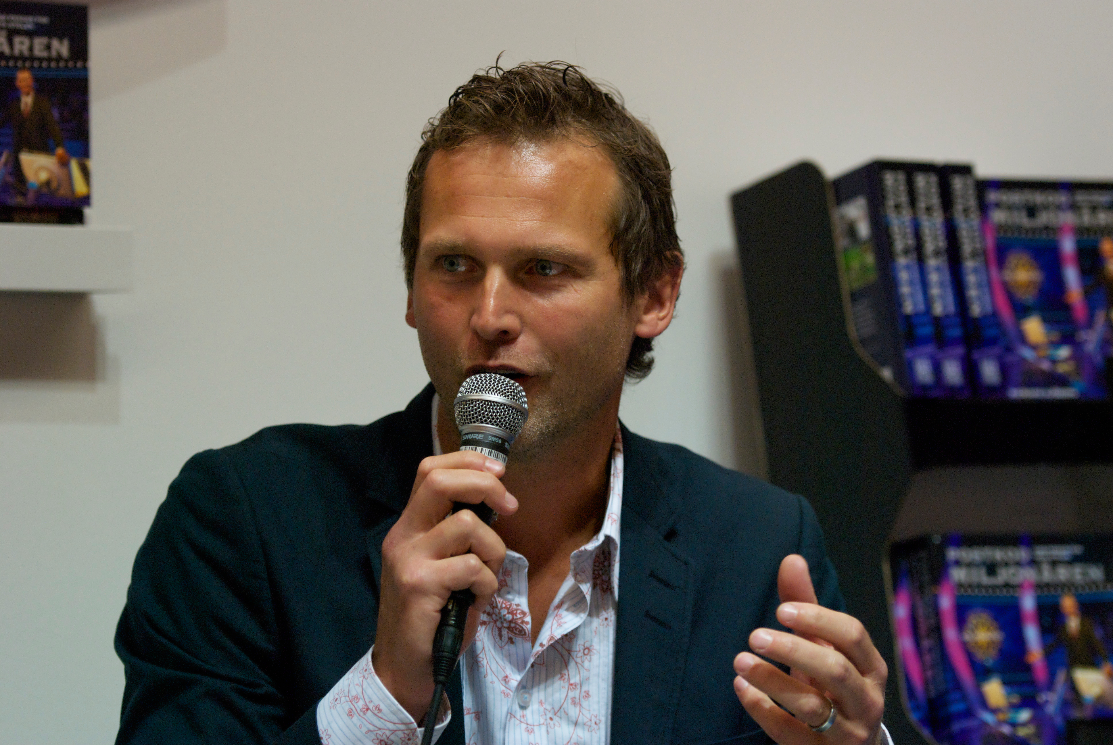 Rickard Sjöberg at Göteborg Book Fair 2011.